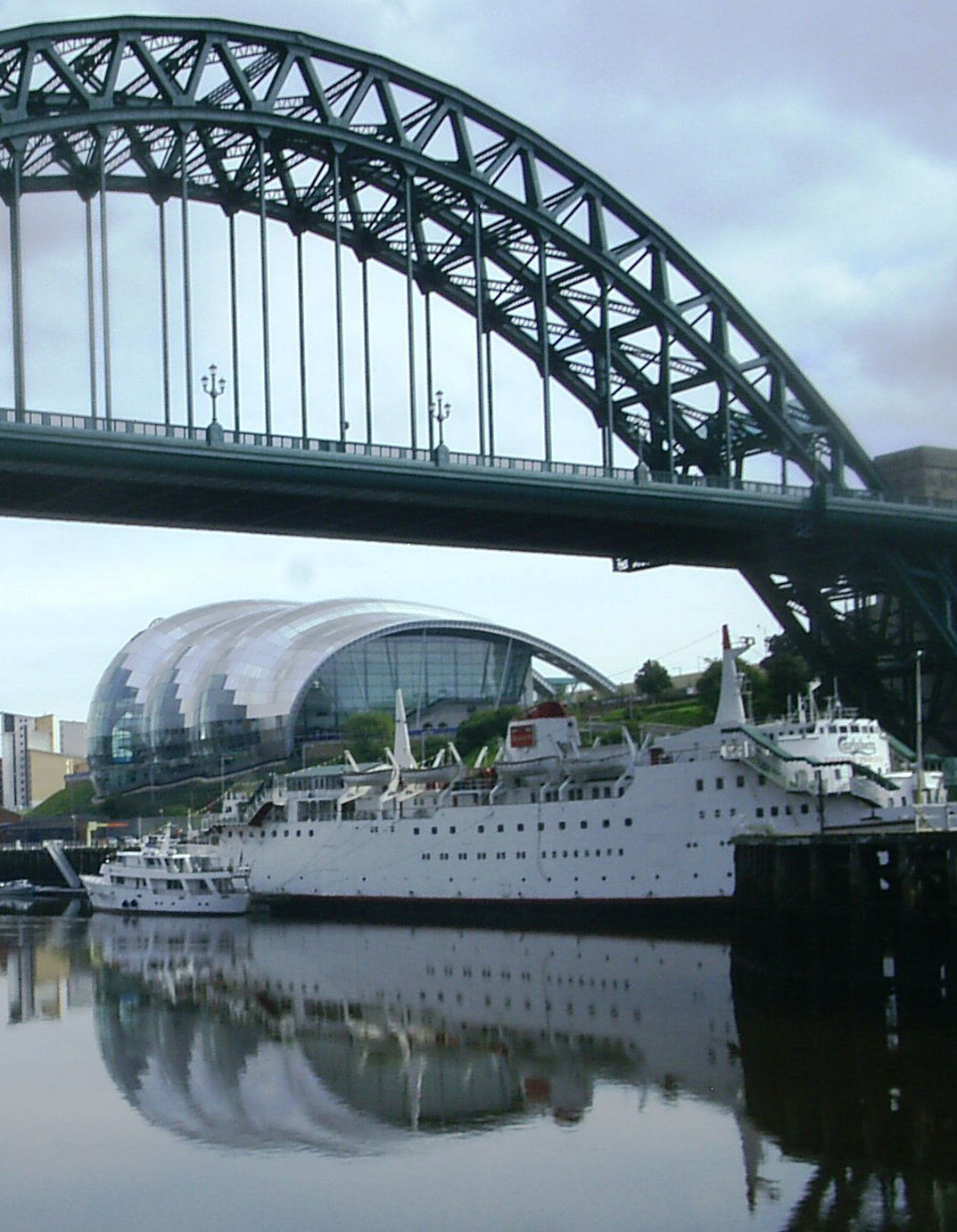 The Tyne Bridge and River Tyne in Newcastle upon Tyne, England, viewed from the Newcastle side. The building on the Gateshead side reflected in the river is The Sage. The ship is the permanently moored Tuxedo Princess floating nightclub (the former car ferry TSS Caledonian Princess).